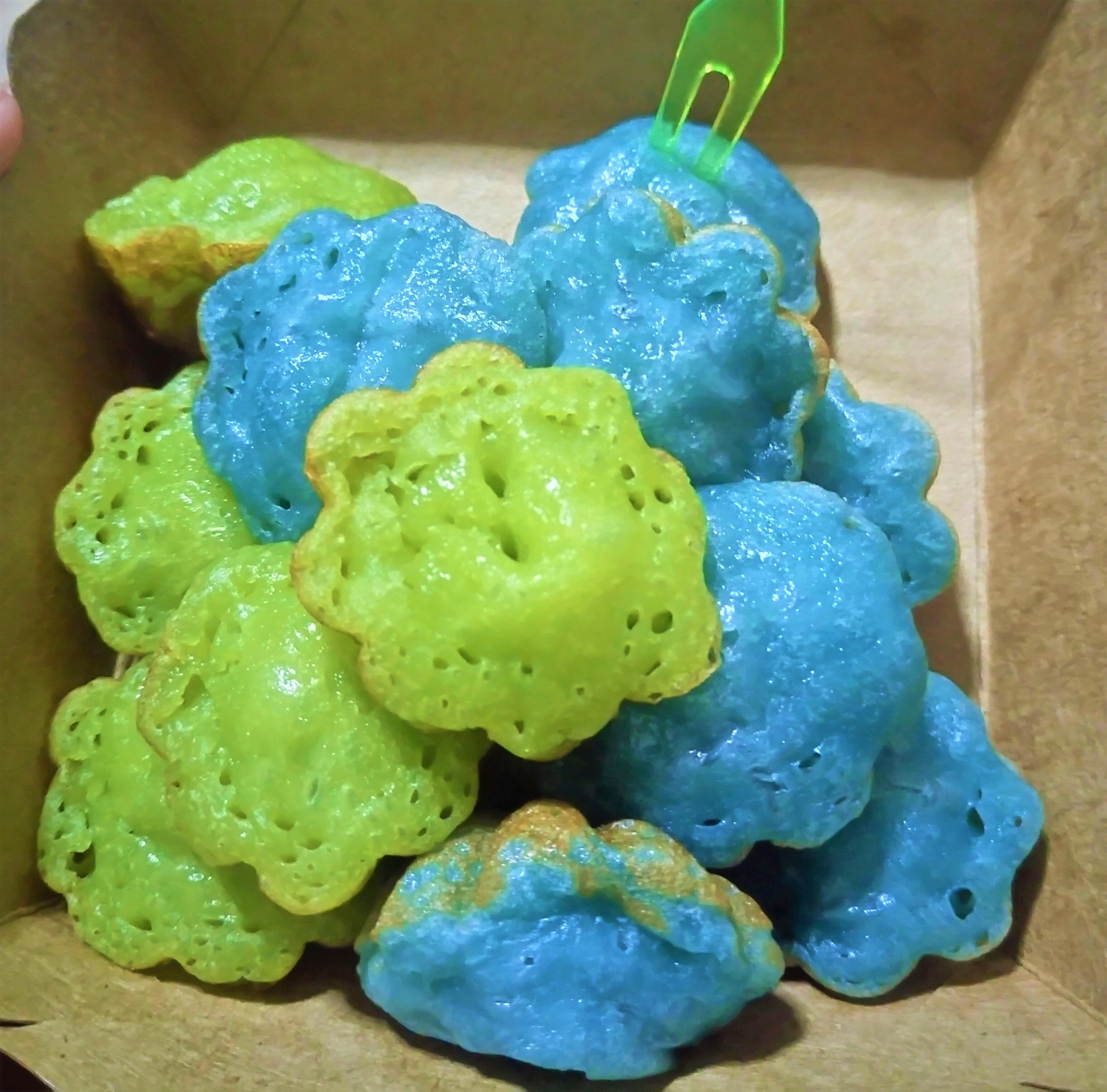 The main ingredient of the green one is Pandan leaves, and the main ingredient of the blue one is butterfly pea flower.